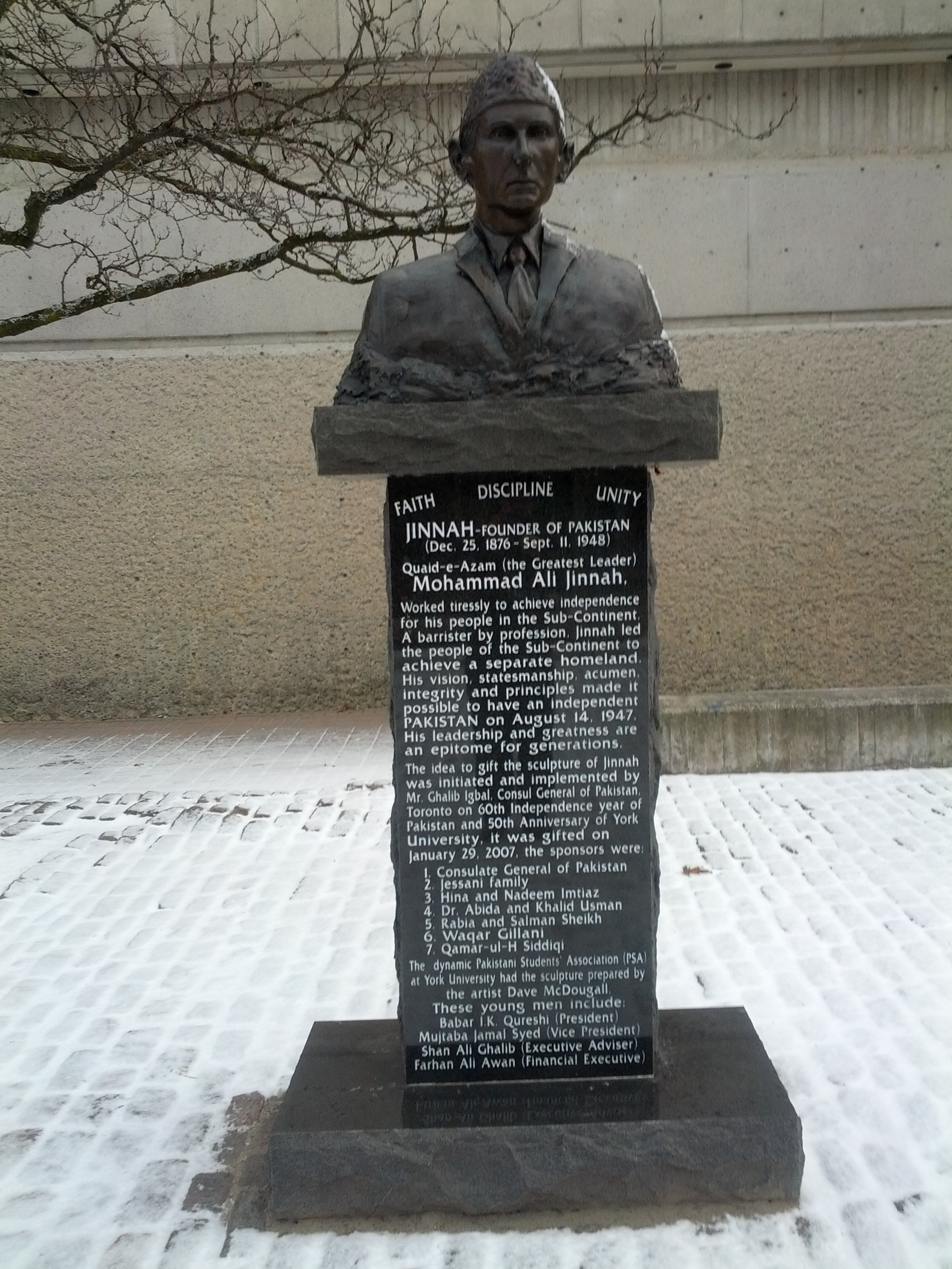 Statue in York University, in Toronto, Ontario, Canada.